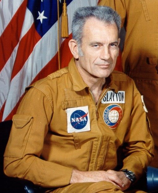 Donald K. Slayton